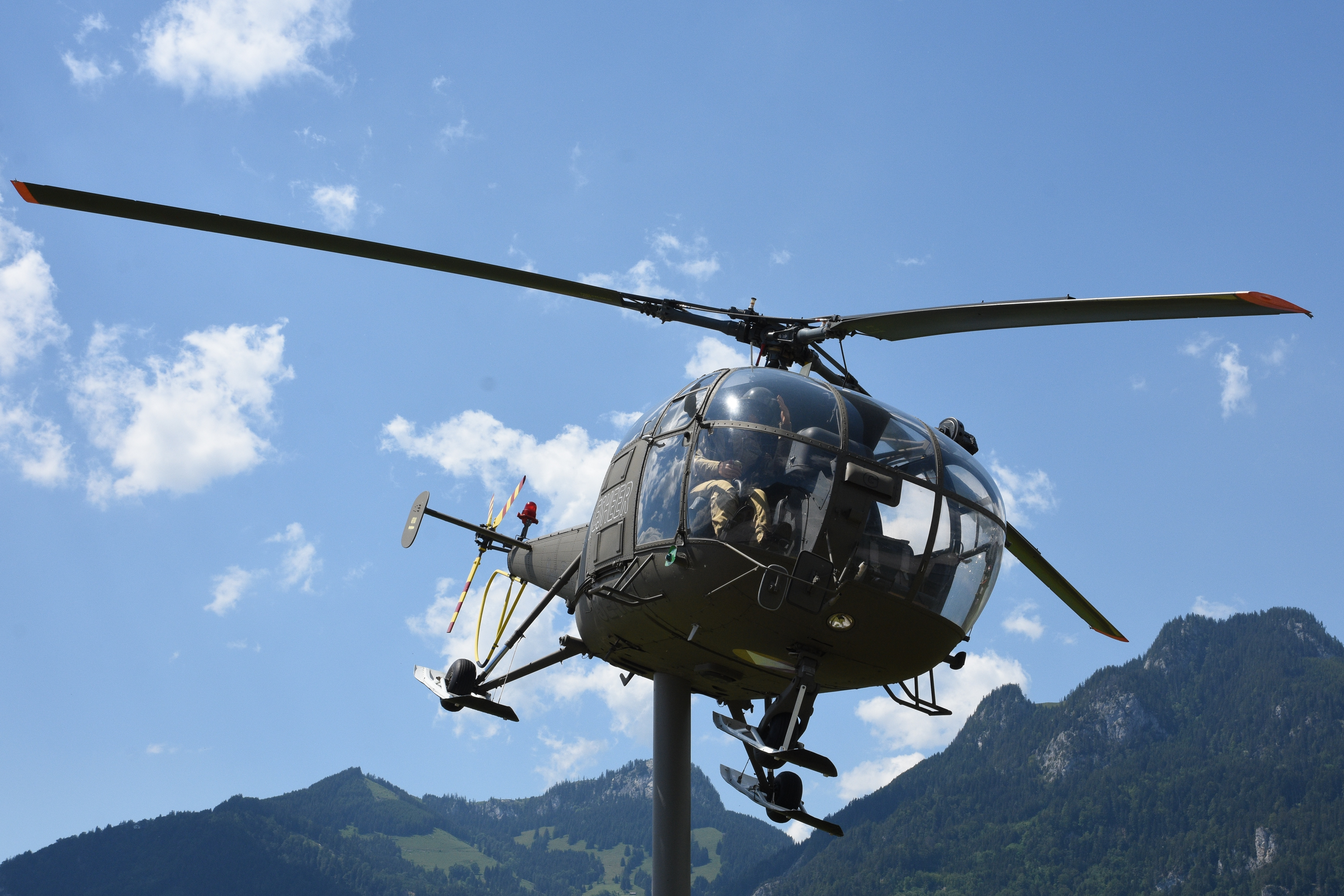 Fliegerhorst Fiala Fernbrugg Alouette (Austrian Air Force)